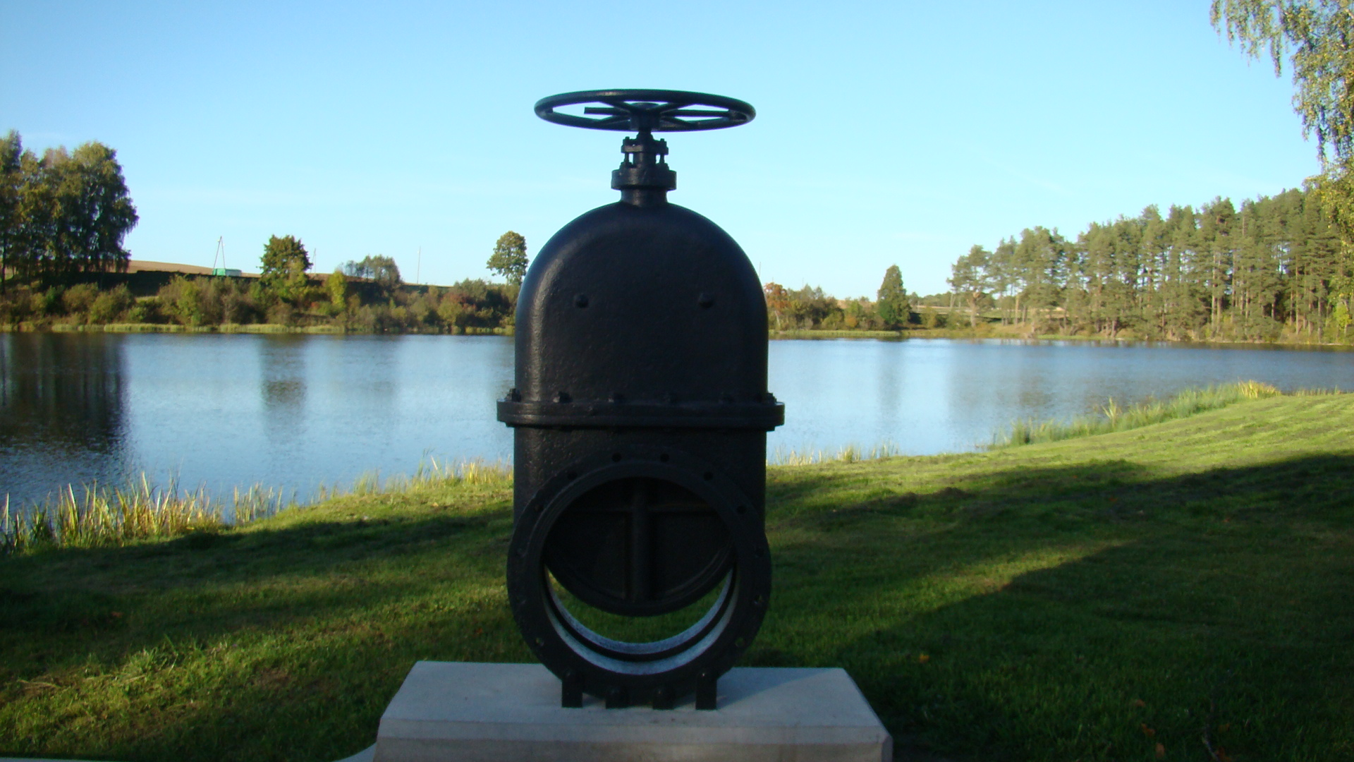 In the background is Teperis lake in Smiltene, Latvia.